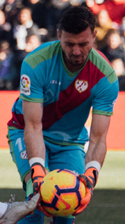 Real Valladolid - Rayo Vallecano, 18th fixture of the 2018-19 La Liga, January 5, 2019.